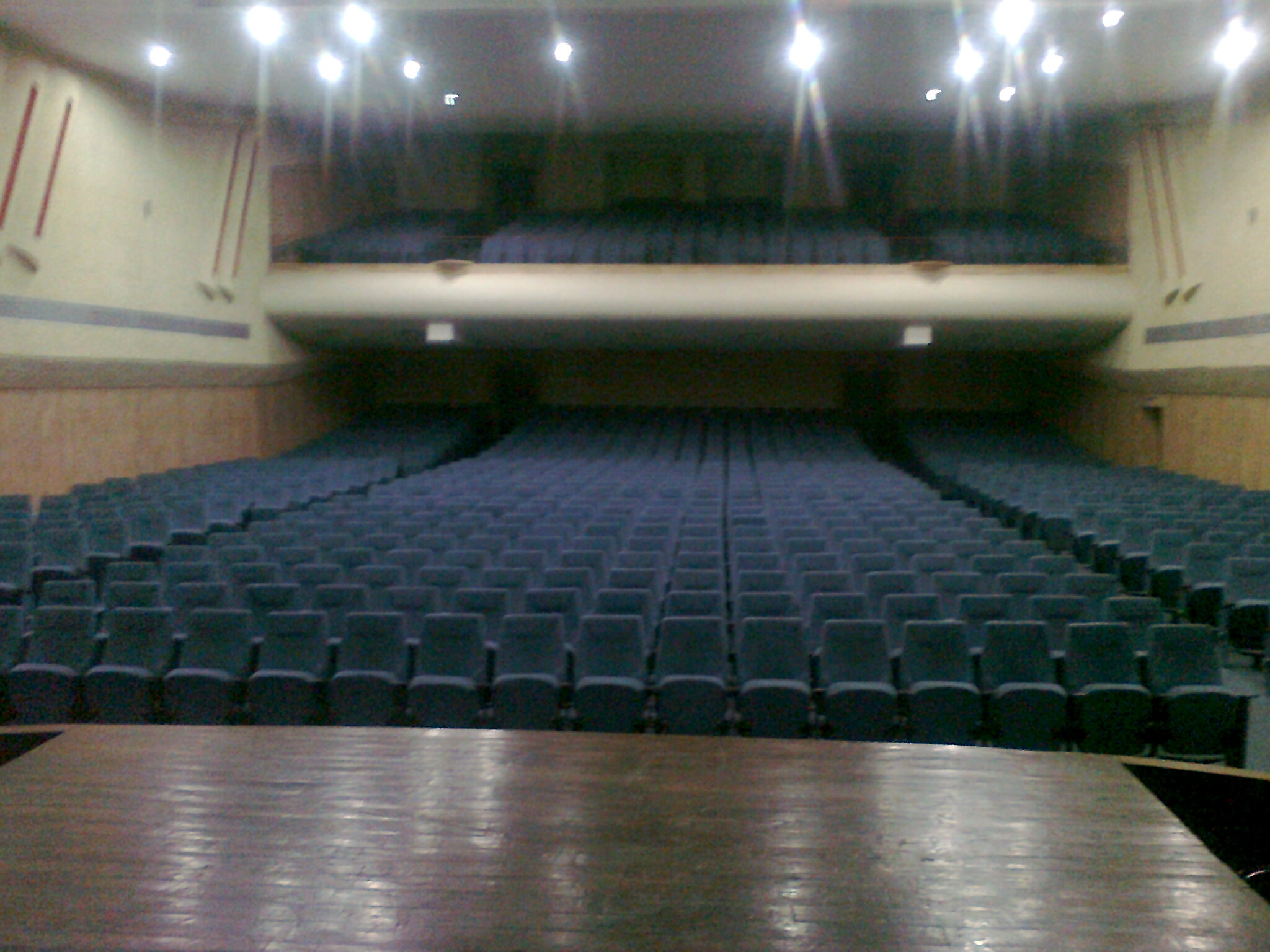 The Auditorium of the College of Engineering, Pune as viewed from the stage